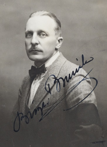 Finnish architect Birger Brunila (1882–1979).